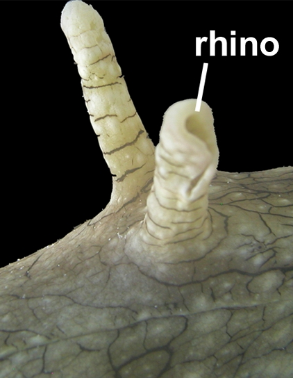 Photo of rhinophores (rhino) of Aplysia californica. Anterion end (head) is on the right.